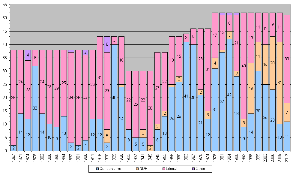 Image created by me from a graph produced in MS Excel, using data from List of Nova Scotia general elections. Tompw The numbers within each bar are the number of seats won by that party in that election. No number indicates one seat.